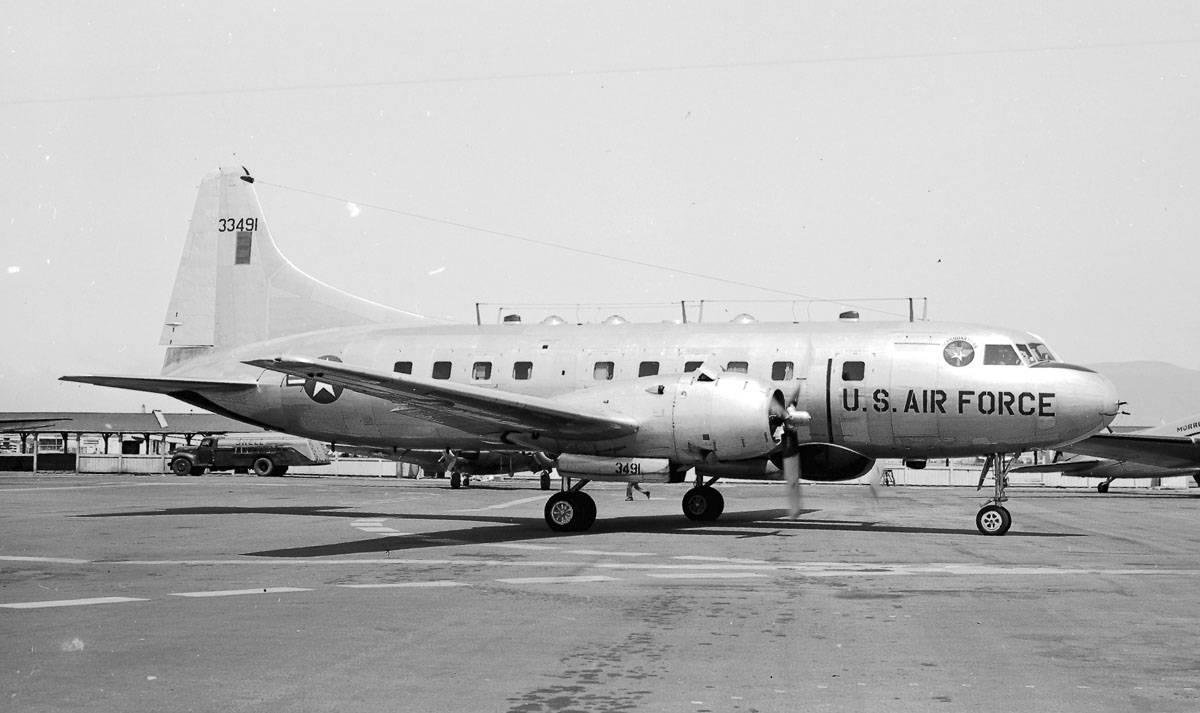 Convair T-29C Navigation Trainer